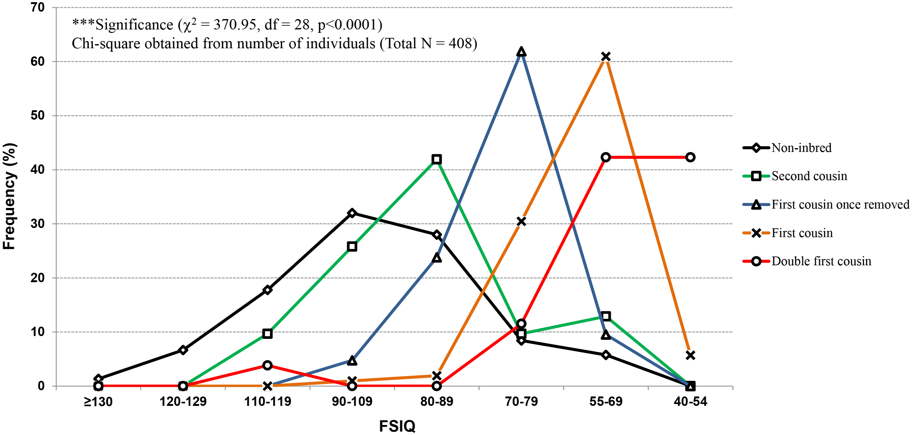 FSIQ (Full Scale IQ) comparisons in respect to the degree of inbreeding. The results depict the percentage frequency distribution of FSIQ in relation to coefficient of inbreeding. The non-inbred children display high frequency peaks on left side (presenting high FSIQ values) and downturn toward low FSIQ scores. On the other hand, elevated peaks are observed for low FSIQ scores (on right side) with the increase of inbreeding coefficient (F = 0.0156 to 0.125) and flattened toward high FSIQ scores, providing the evidence for inbreeding depression on children FSIQ. The study was conducted during April 2013 through July 2013 and a total of 408 children (6 to 15 years of age) were selected randomly on a priori basis from five Muslim populations viz., Gujjar and Bakarwal (n = 97), Mughal (n = 72), Malik (n = 86), Syed (n = 65) and Khan (n = 88). The age group of the children selected was 6 to 15 years.